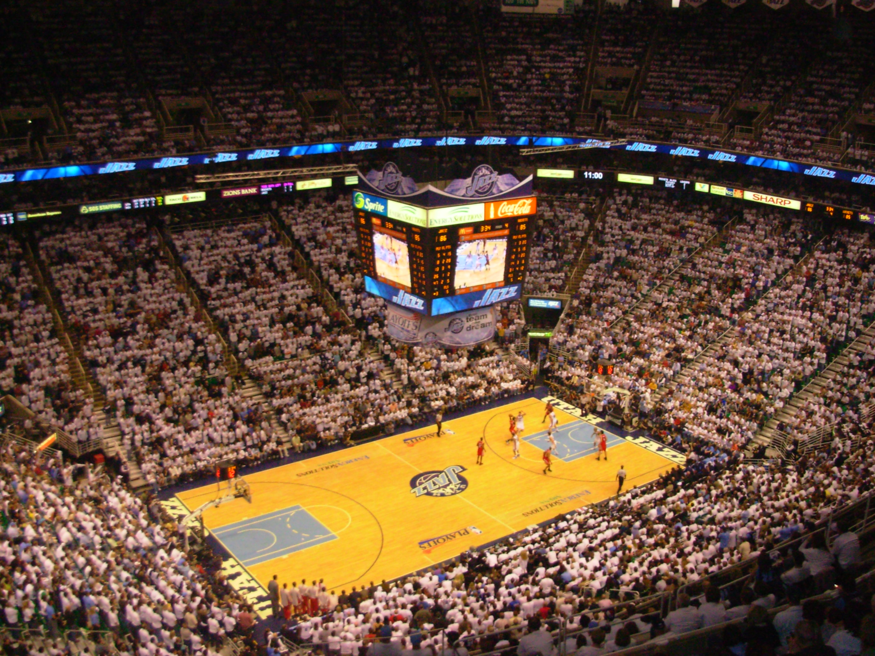 Interior of the Energy Solutions Arena